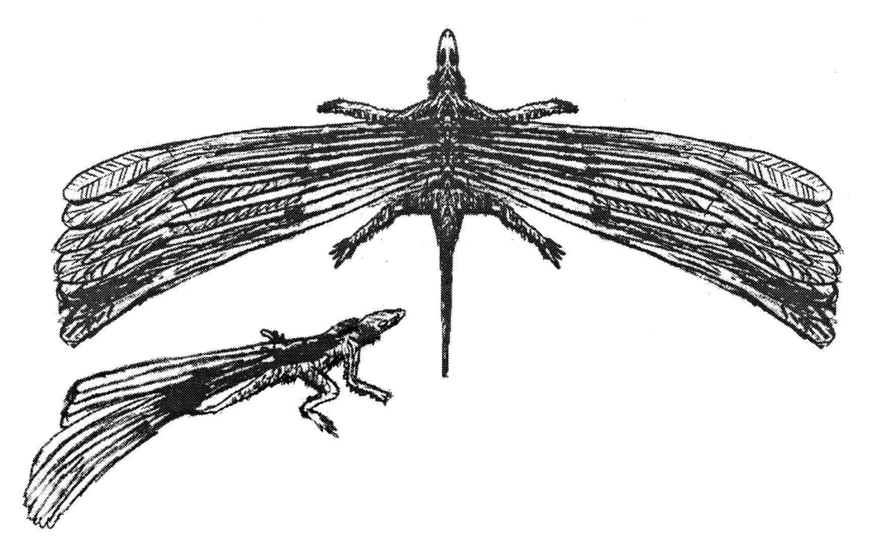 Oregon State University scientists John Ruben and Terry Jones developed this artist's image of what they believed Longisquama insignis would have looked like, as it glided through trees in central Asia 220 million years ago. As outlined in a publication in the journal Science, the researchers say this animal may have been the earliest ancestor of birds, but clearly was not a dinosaur. Full story at